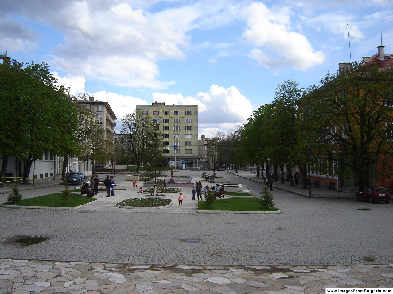 Krumovgrad-Centre